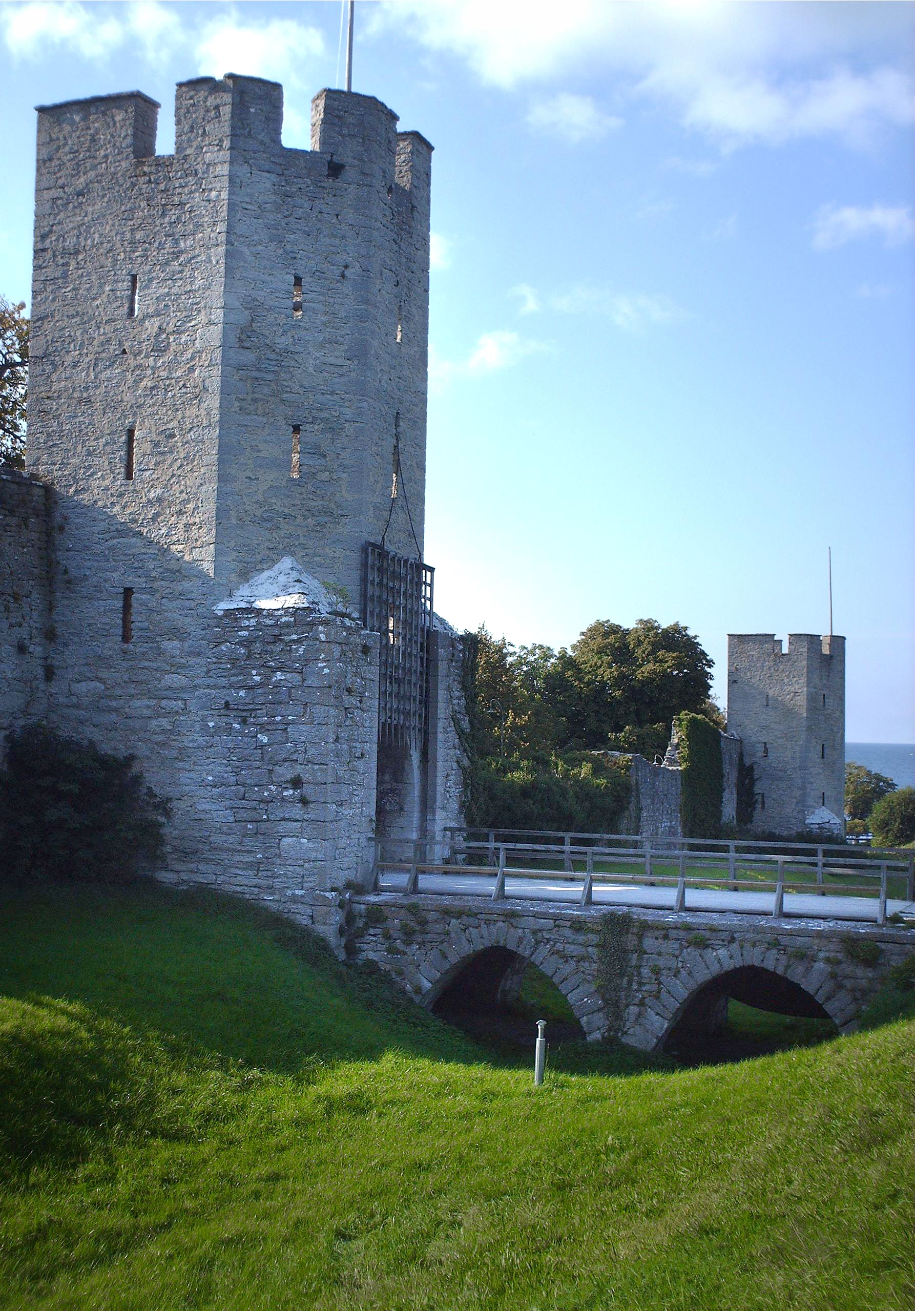 Visby City Wall